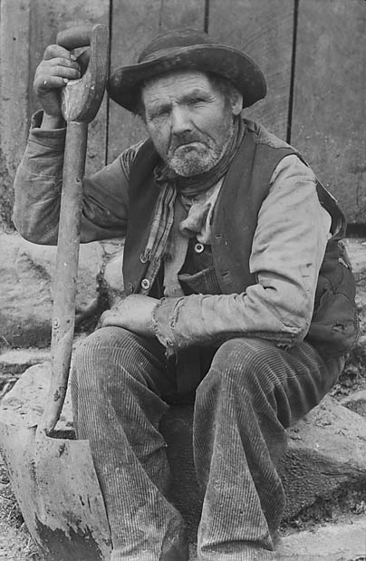 1 negative : glass, dry plate, b&w ; 11 x 8.5 cm.